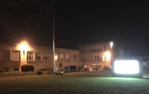 Photo of All Saints Academy